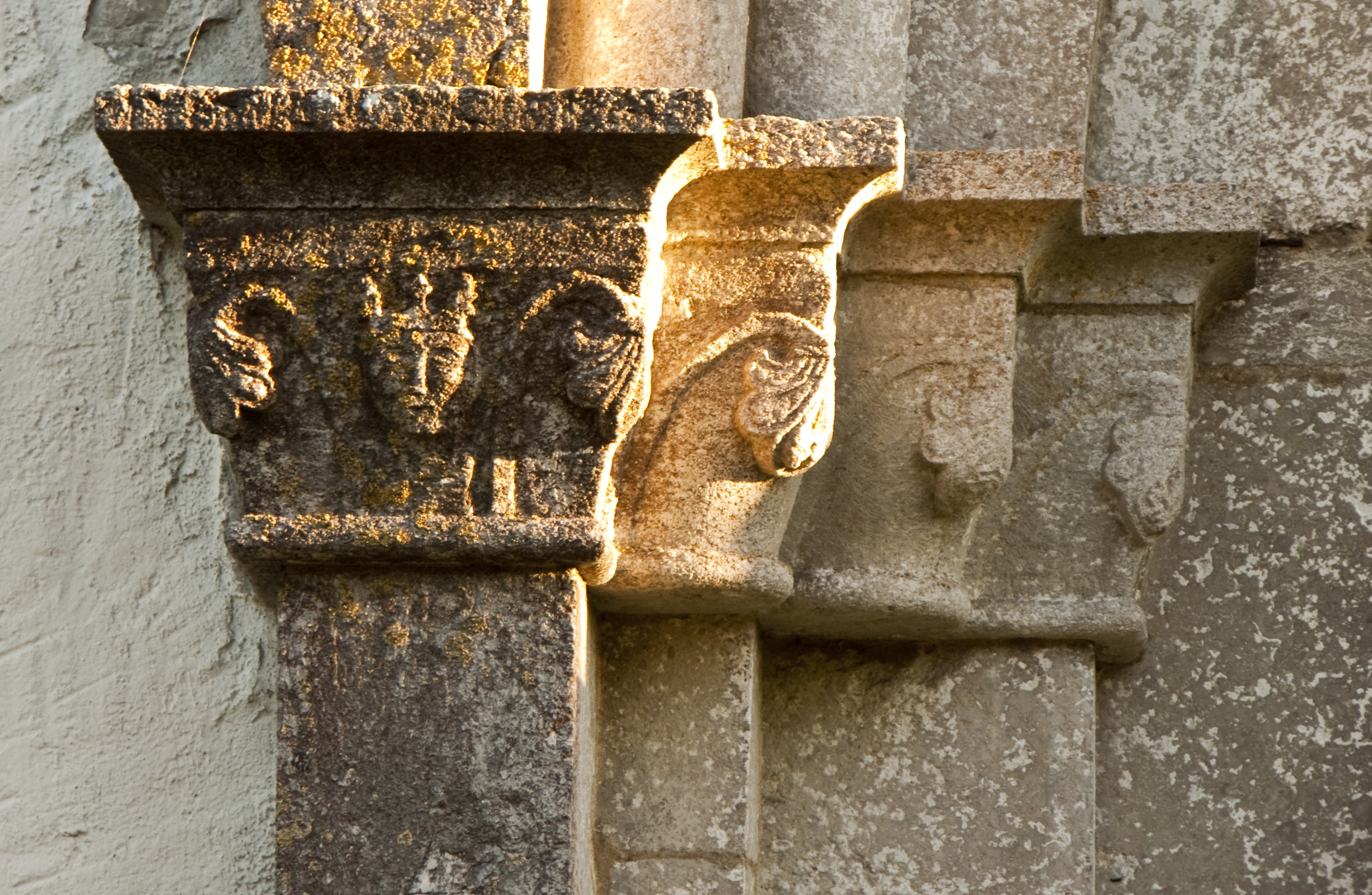 Roma church, Gotland, Sweden: sculpture detail of the Northern portal of the nave.